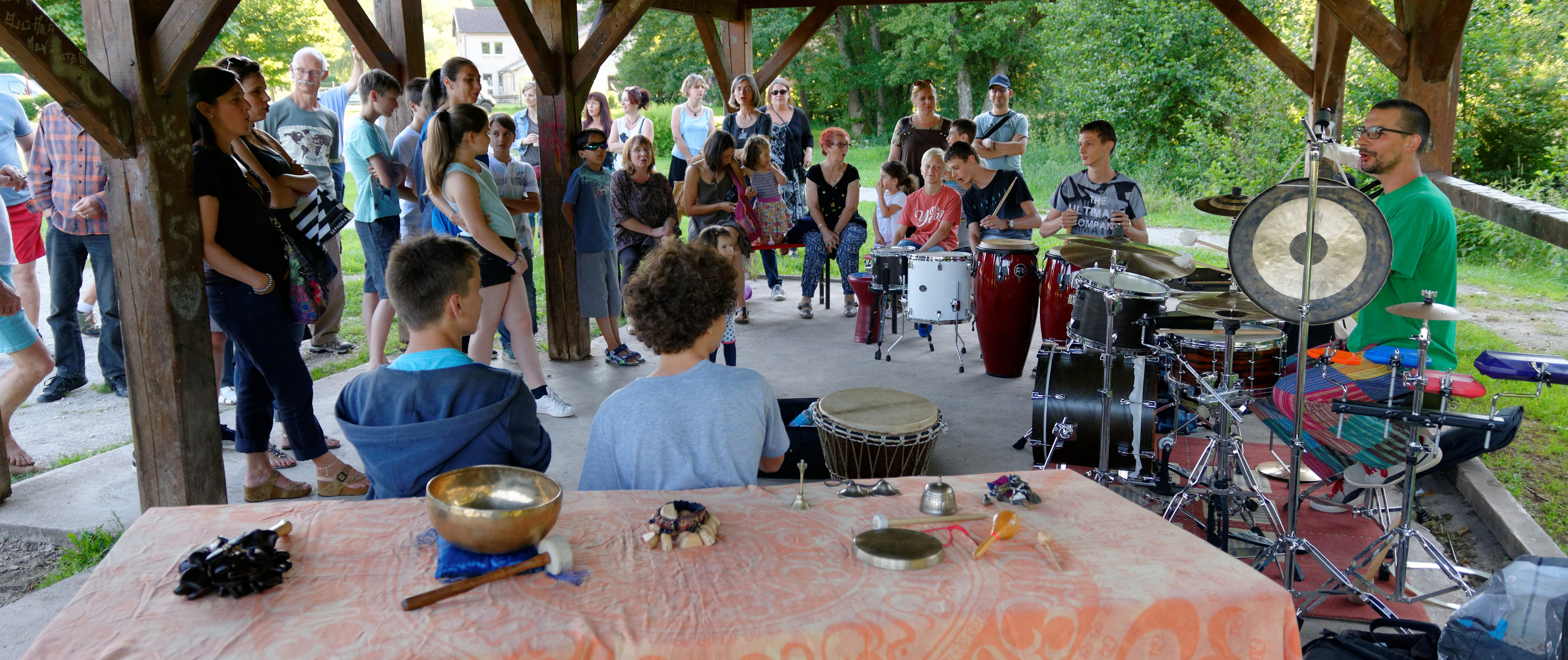 Personality rights warningAlthough this work is freely licensed or in the public domain, the person(s) shown may have rights that legally restrict certain re-uses unless those depicted consent to such uses. In these cases, a model release or other evidence of consent could protect you from infringement claims.